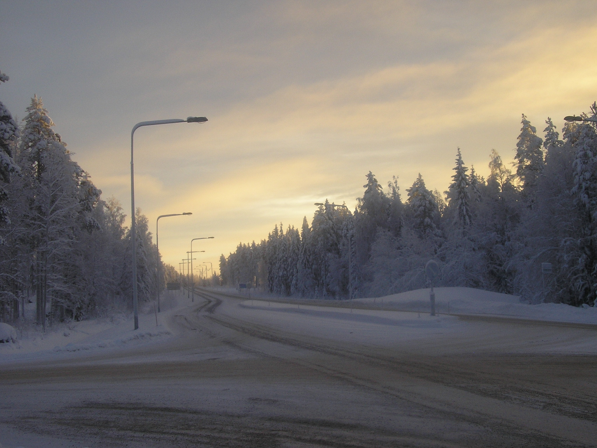 Main road 27 in Pyhäjärvi, Finland